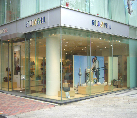 Goldpfeil Store Tokio